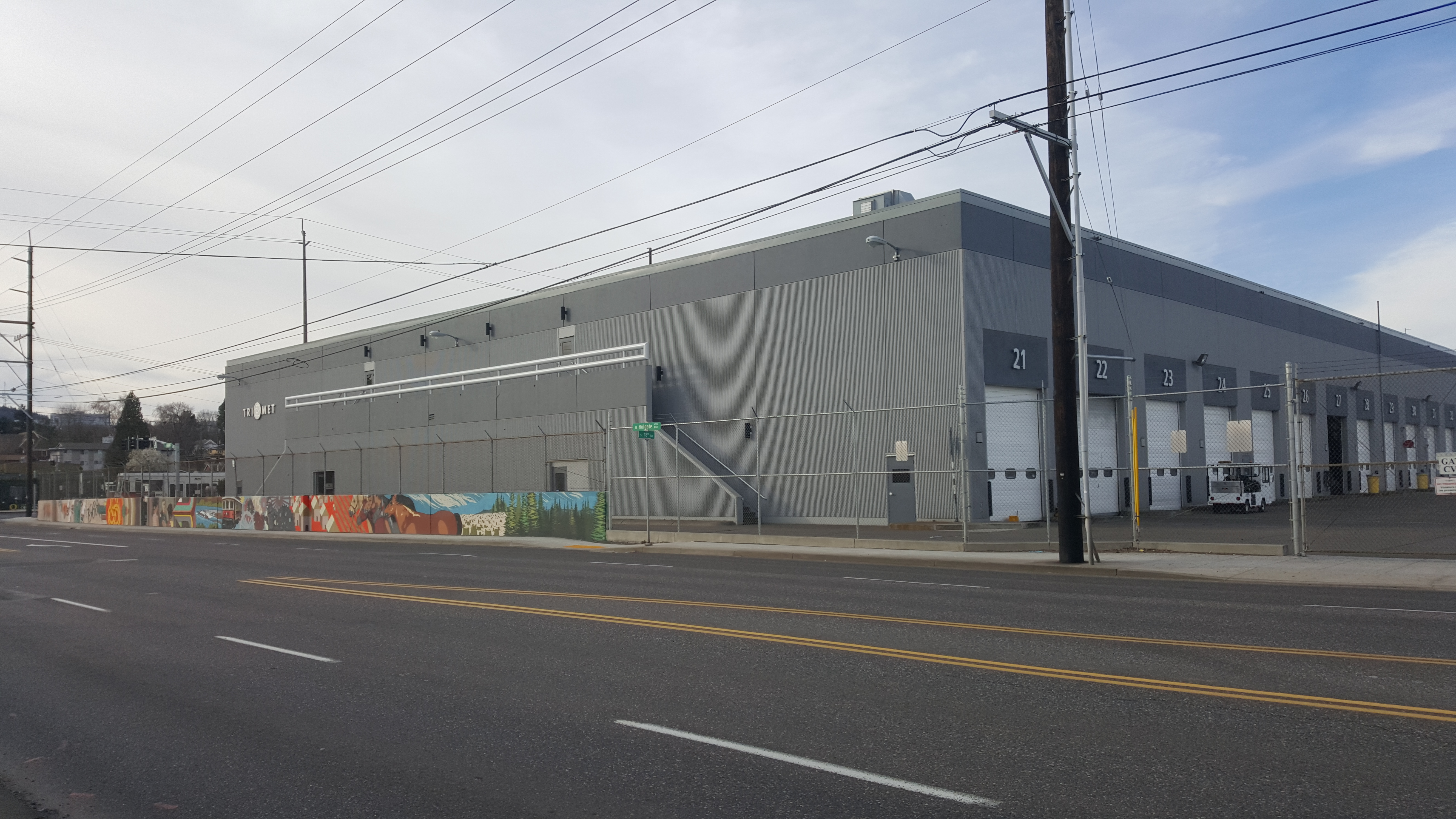 TriMet bus maintenance building at SE 17th and Holgate, the Center Street Garage, in Portland, Oregon, 2016